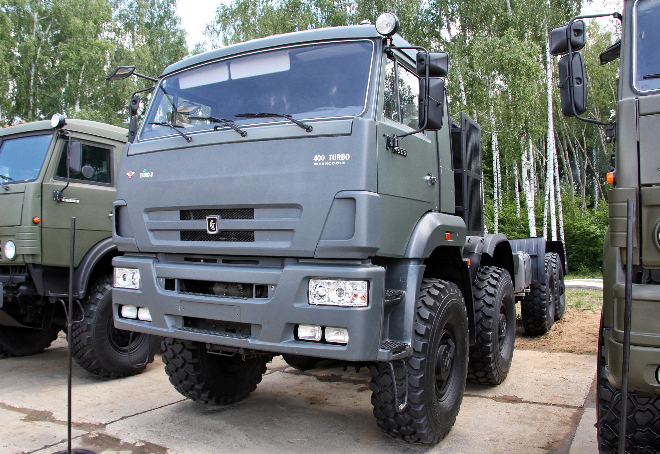 KAMAZ-6560 at Bronnitsy test rage.